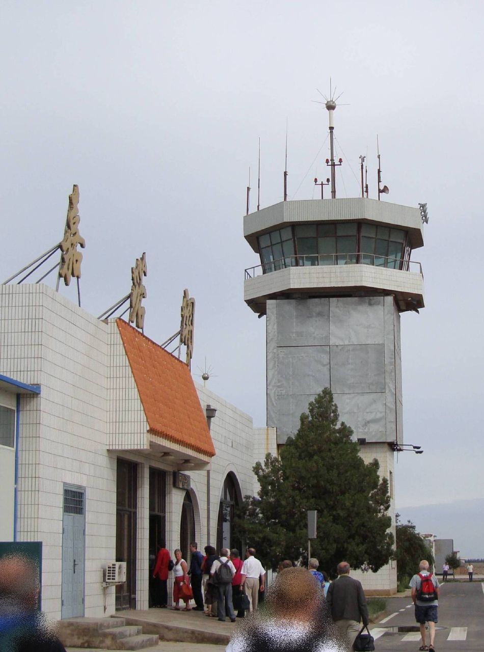 This is actually Jiayuguan Airport, and the city of Jiayugan is nearby. But we were staying at Jiuquan, 'Wine Spring', and most of the photos are of that city and its surrounding countryside. 嘉峪关机场/嘉峪關機場